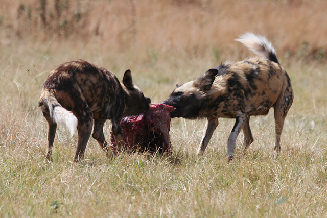 Taken by Evan Summerson, April 2007; Cape Hunting Dog